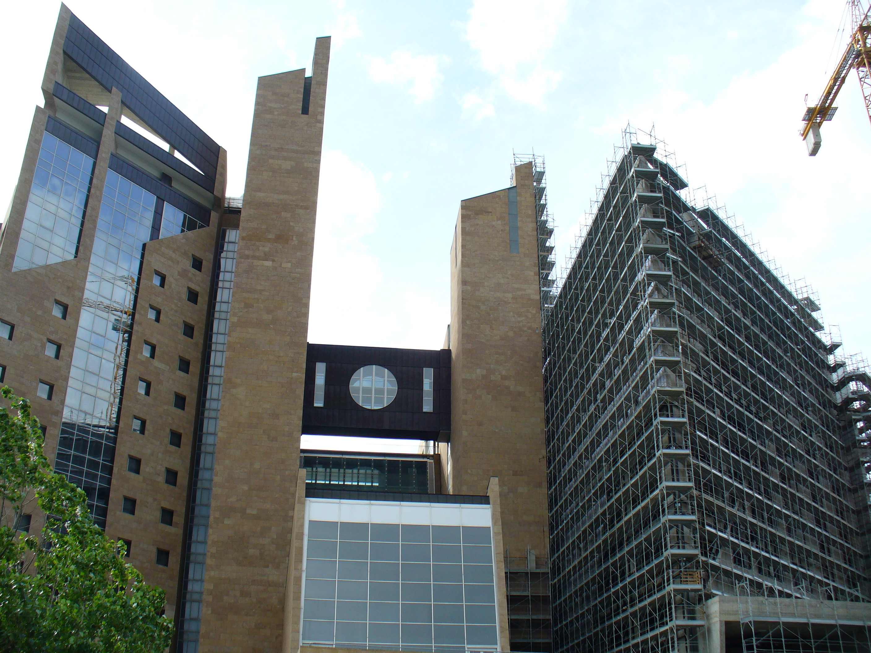 Palazzo di Giustizia (Florence)